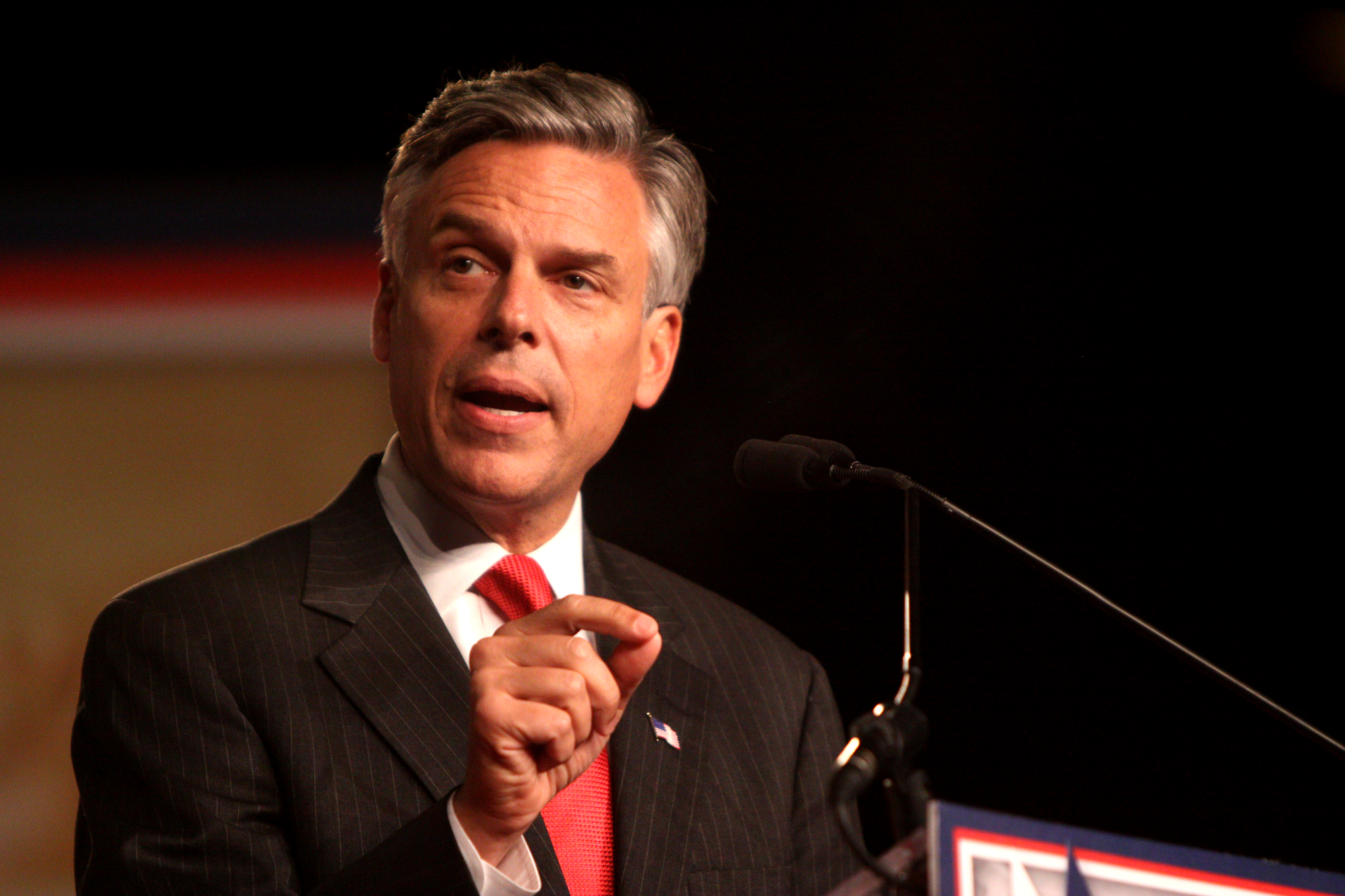 Former Governor Jon Huntsman speaking at CPAC FL in Orlando, Florida.